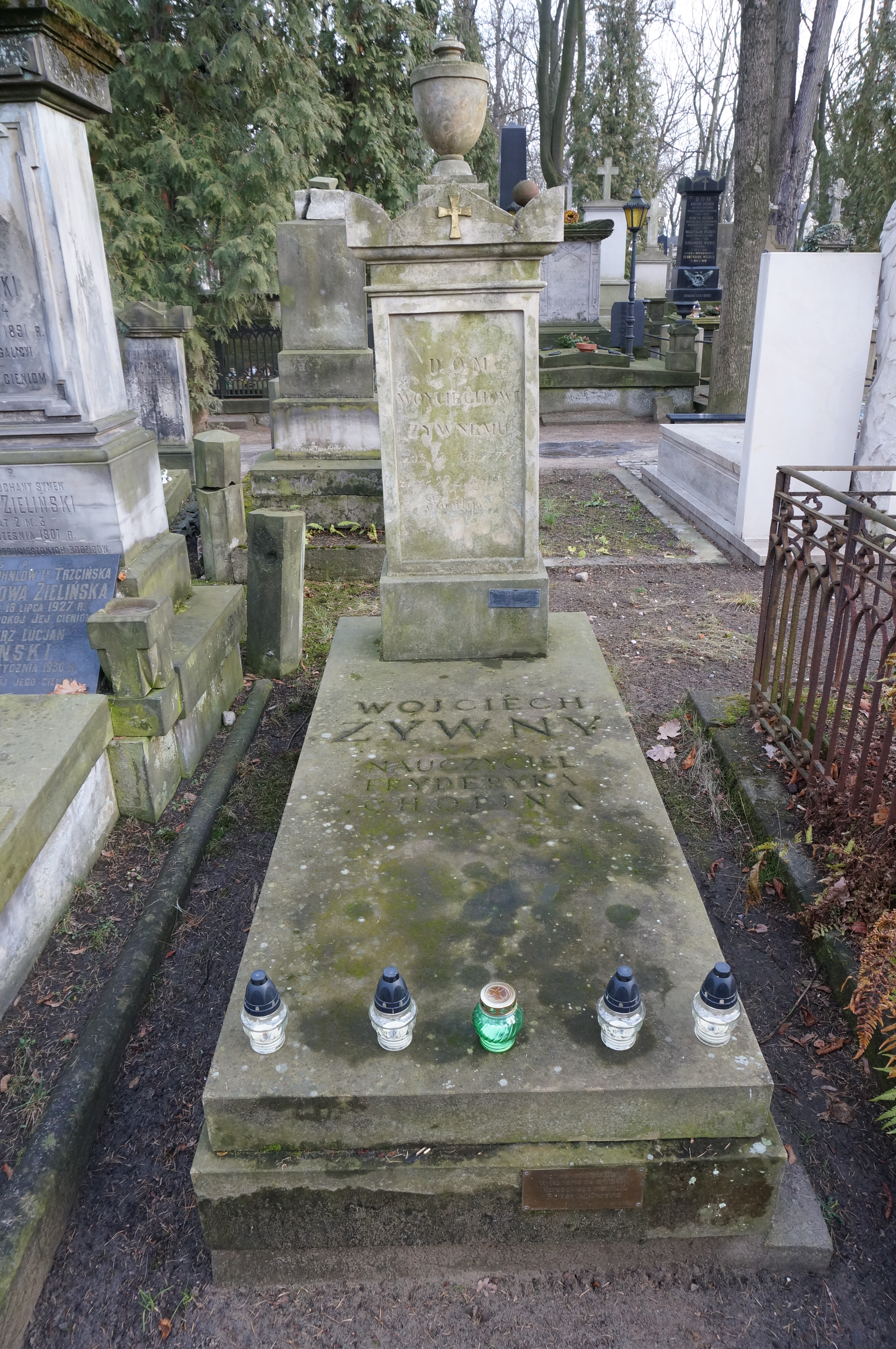 The grave of Wojciech Żywny at the Powązki Cemetery (section 12, row 2, grave 19)